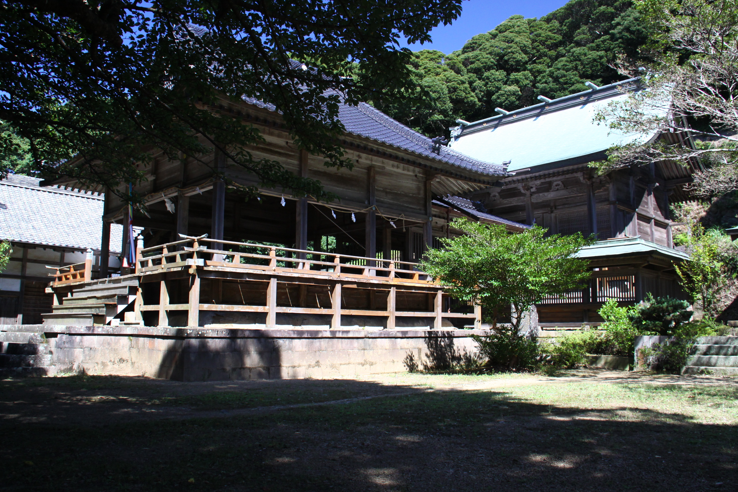 Kaijin jinja haiden and honden